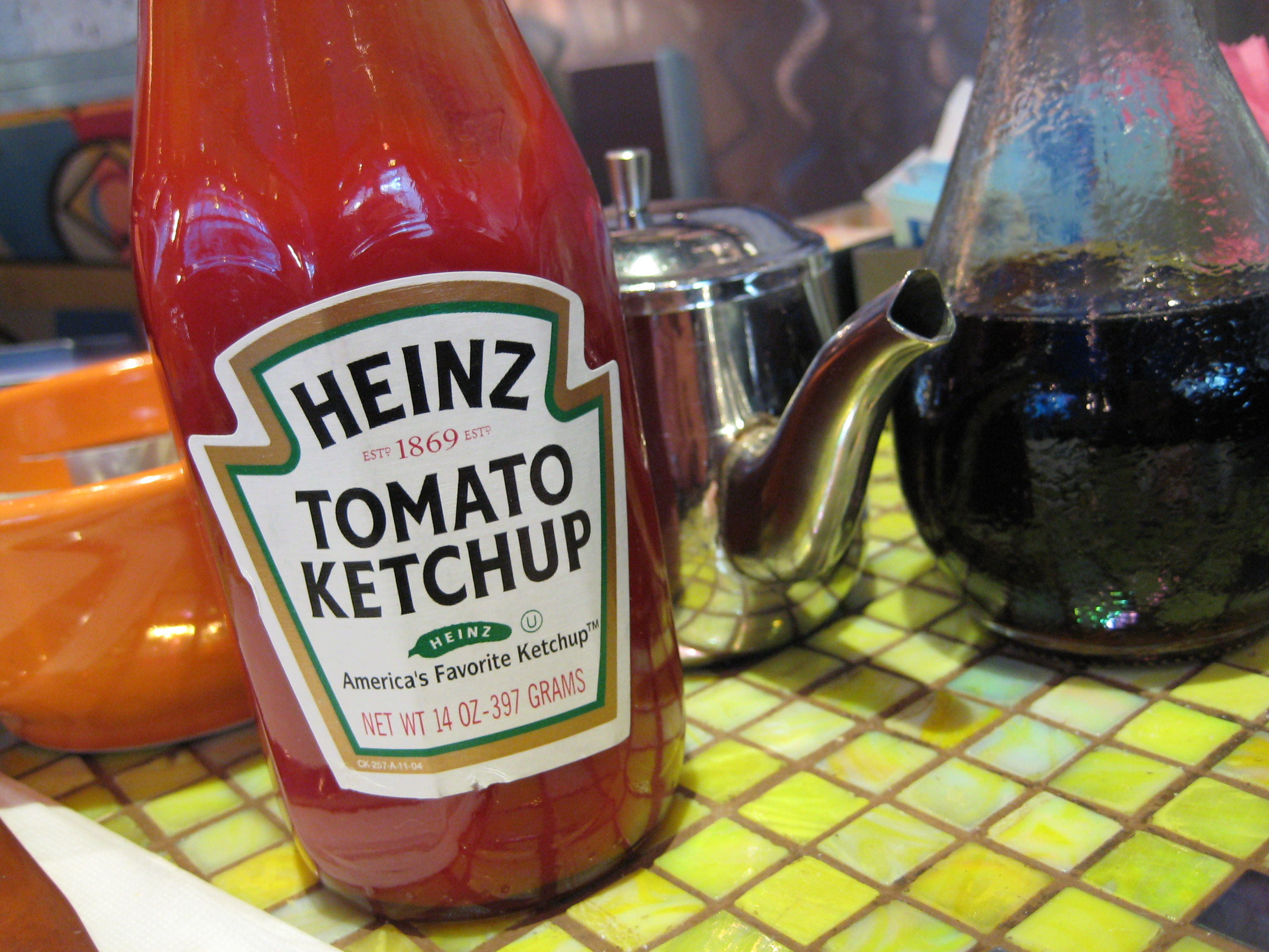 Breakfast